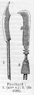 1) 1400s Fauchard 2)1580 Fauchard